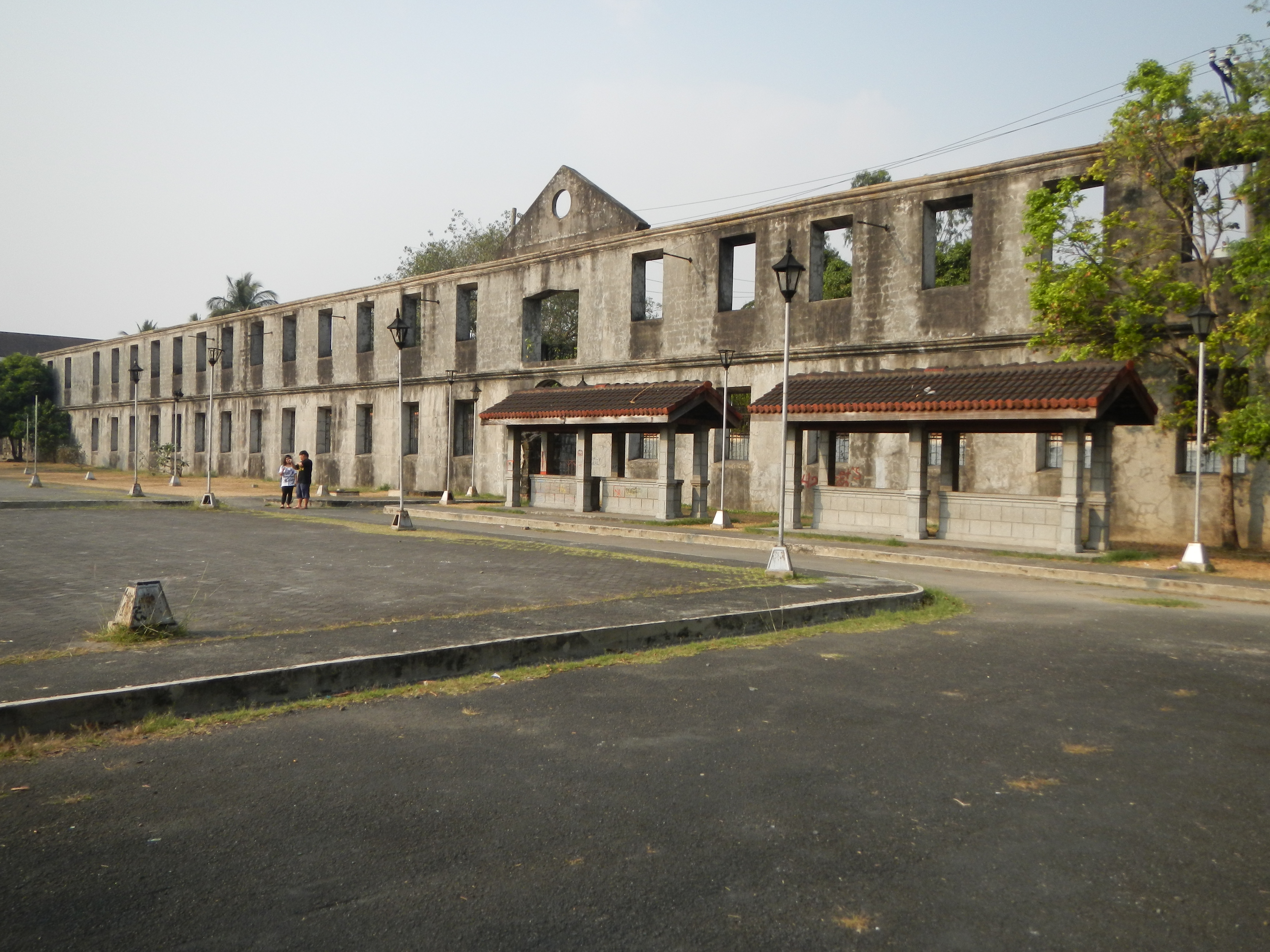 Intramuros - (Golf club, Walls, Entrance - Puerta de Santa Lucia, Cuartel de Santa Lucia, 1603, Santa Lucia Barracks, gate entrance to Walled City, favored route to Malecon Drive outside the Walls in front of the ECJ or Eduardo Cojuanco building, the former Adamson University and Ateneo Municipal or Ateneo de Manila).